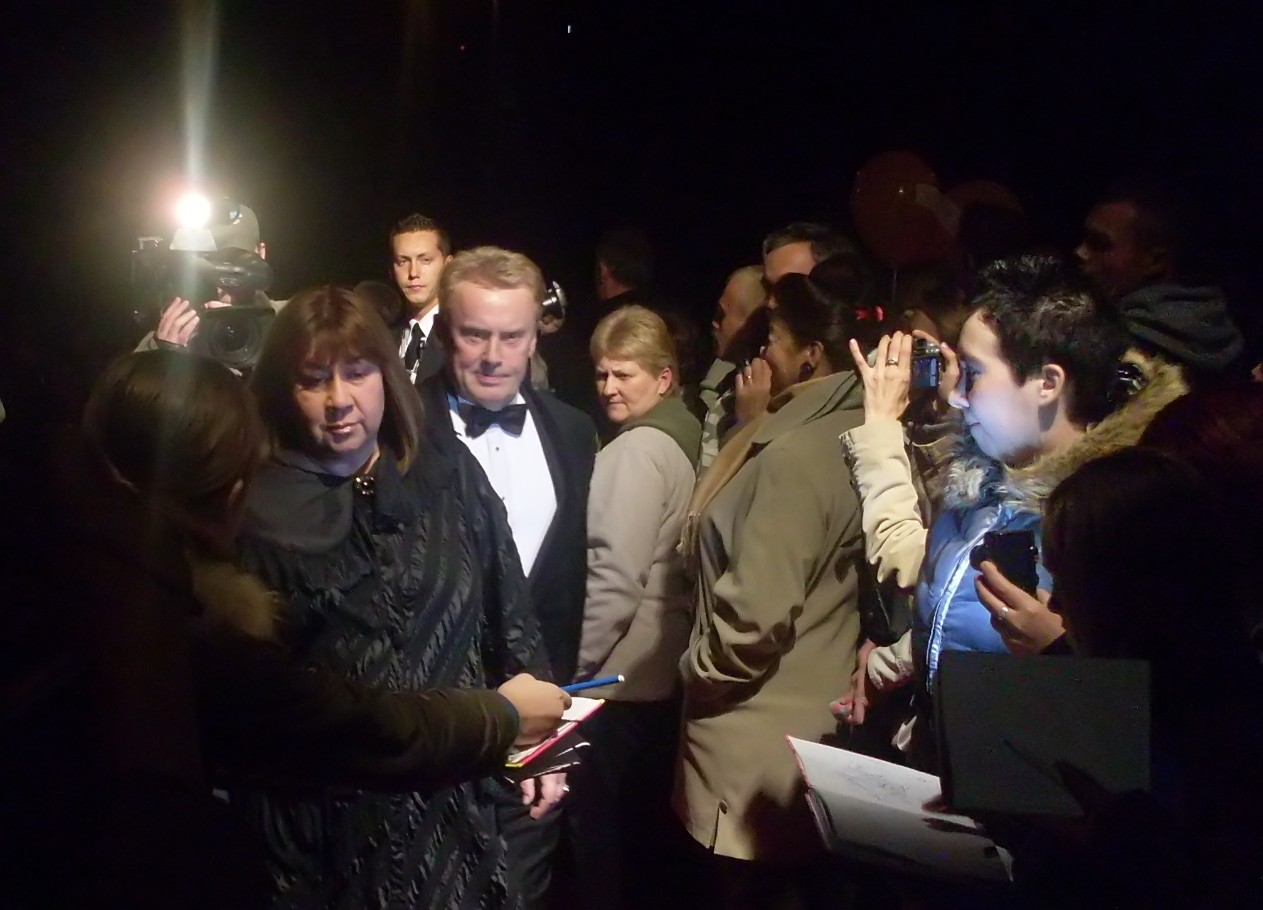 Polish actor Daniel Olbrychski with his wife, Krystyna Demska-Olbrychska at Polish Film Festival in Gdynia 2008.